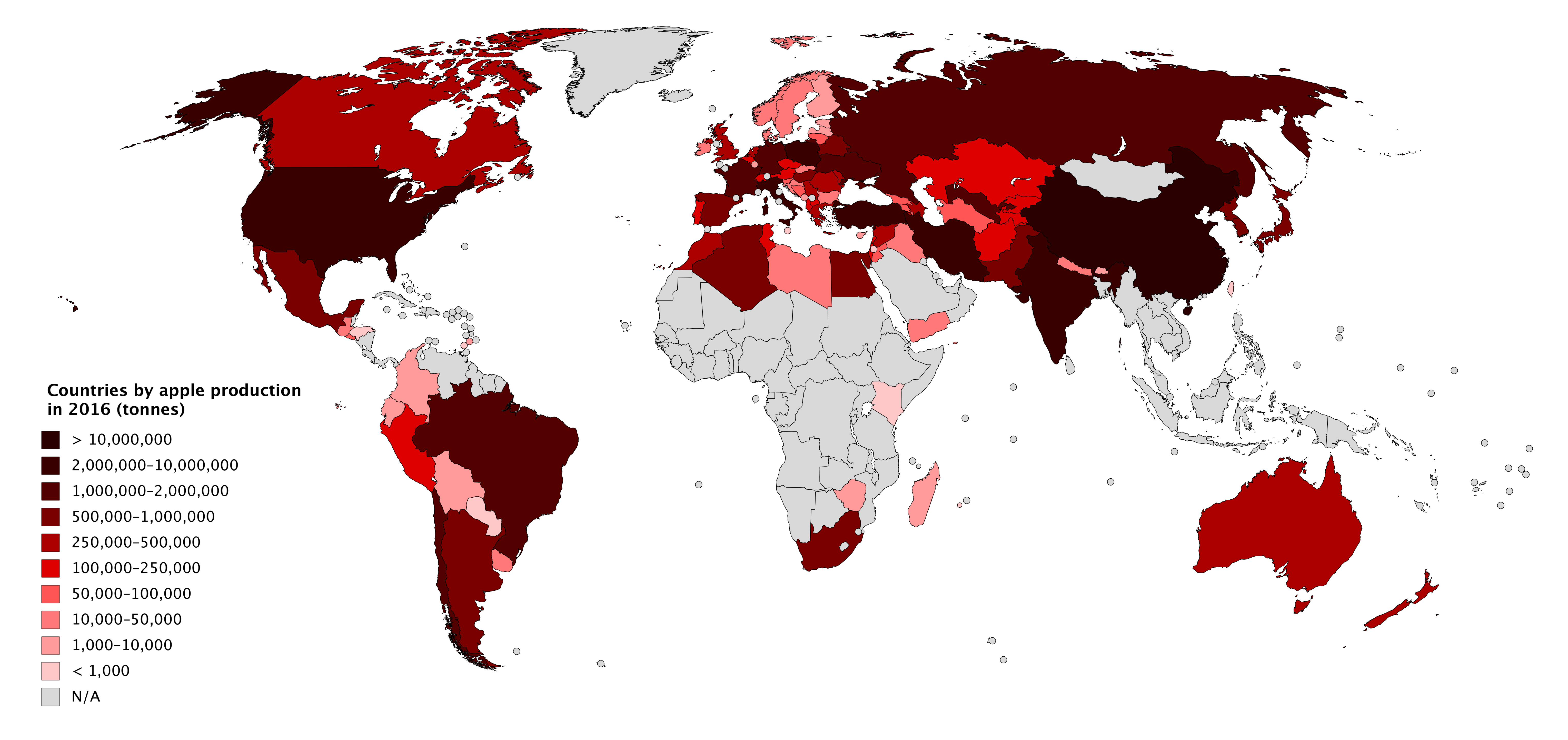 A choropleth map showing countries by apple production in tonnes, based on 2016 data from the Food and Agriculture Organization Corporate Statistical Database (FAOSTAT).